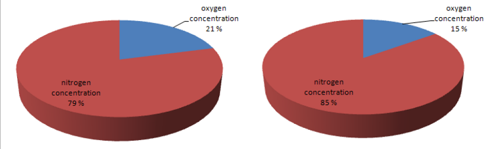 Normal air (on the left pie chart) vs. normobaric hypoxic atmosphere (on the right pie chart): the concentrations of nitrogen and oxygen are different.